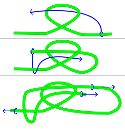 Bowline steps; Image created by sik0fewl using the GIMP